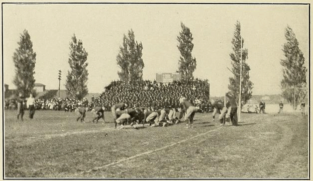 The 1911 edition of the Navy-Johns Hopkins football rivalry. Navy won the contest in a 27-5 victory.